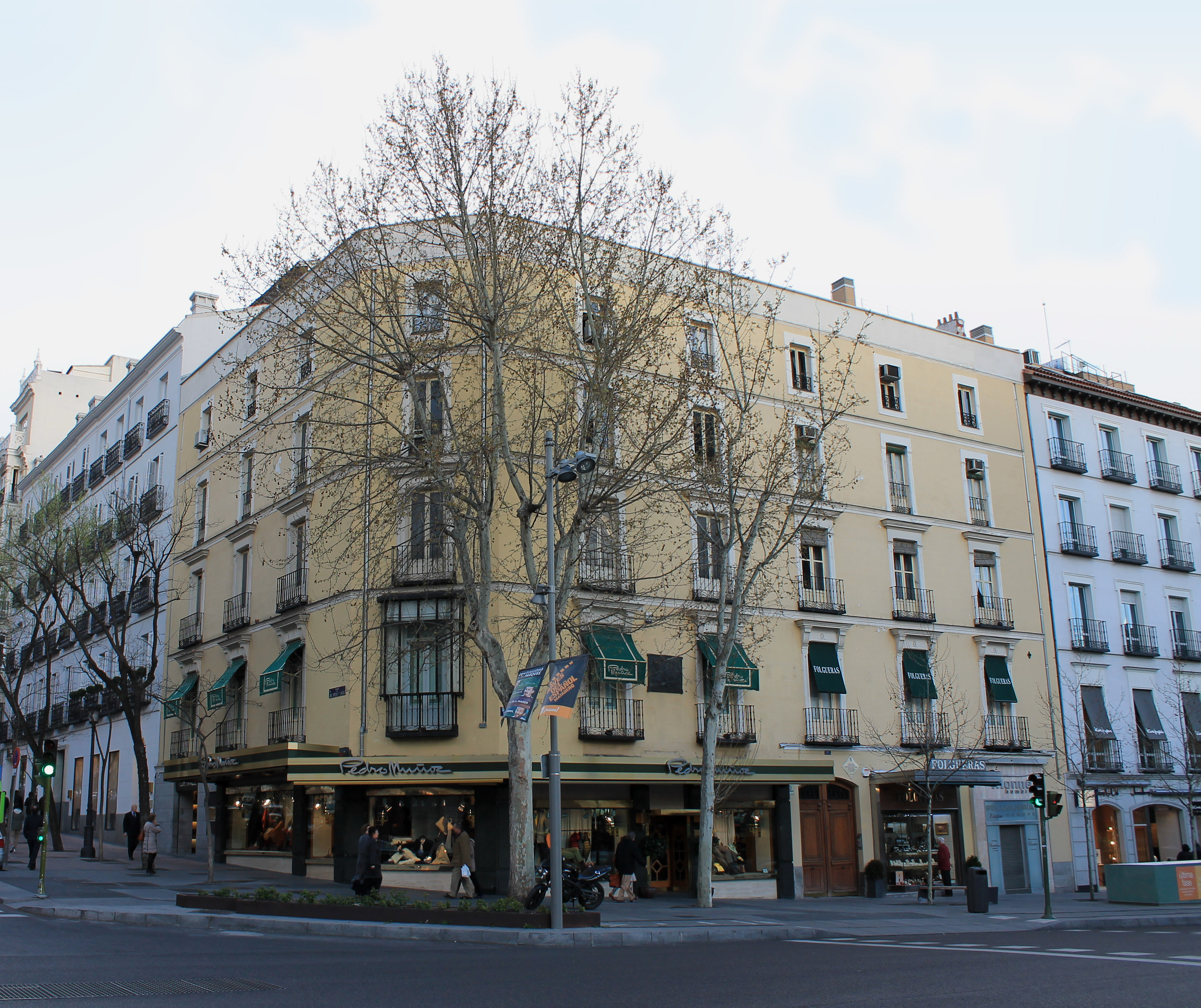 House building at 72 Calle de Serrano (street) in Madrid (Spain). Composer Manuel de Falla lived in it from 1901 to 1907.